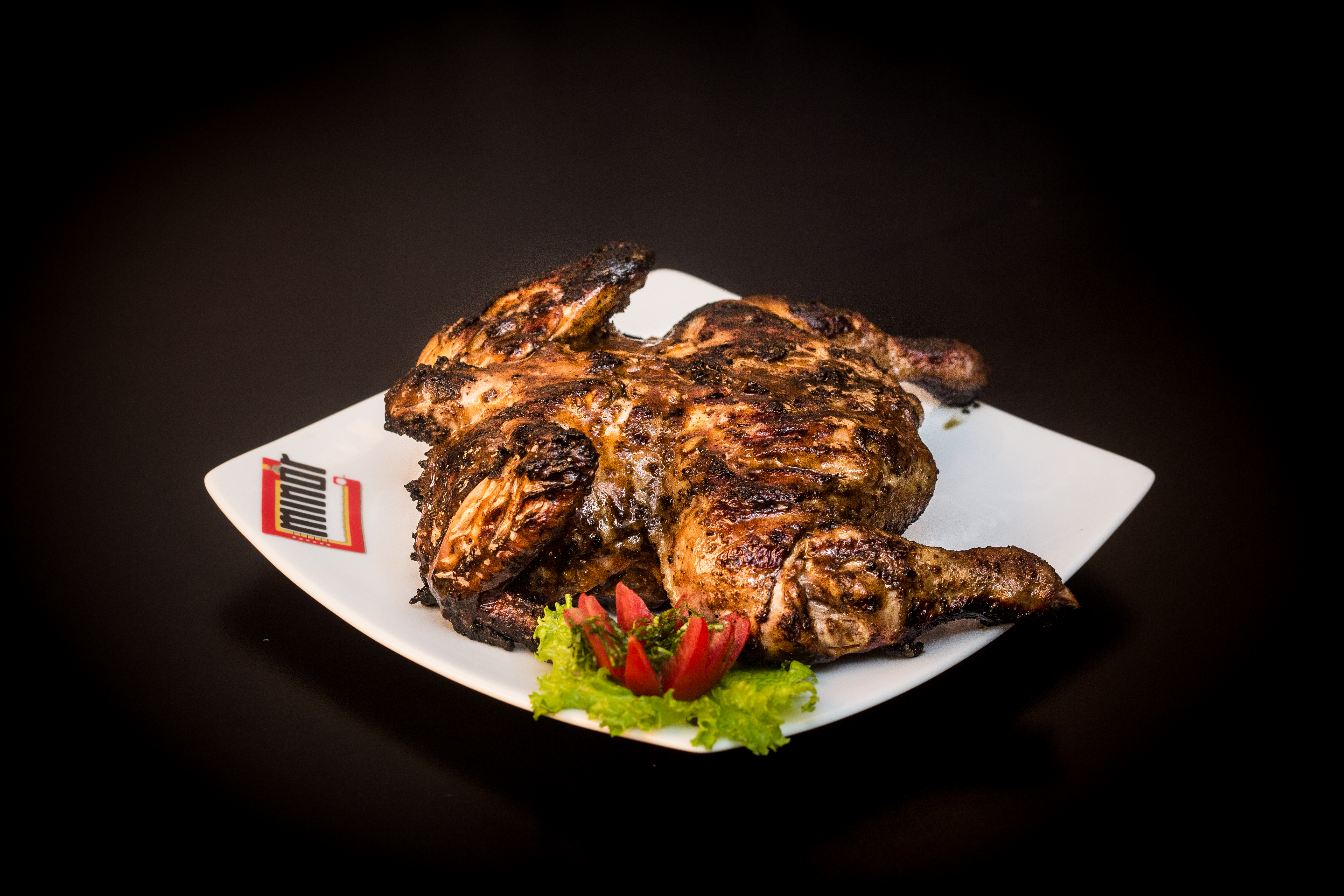 BBQ Chicken - C Minor Music Cafe